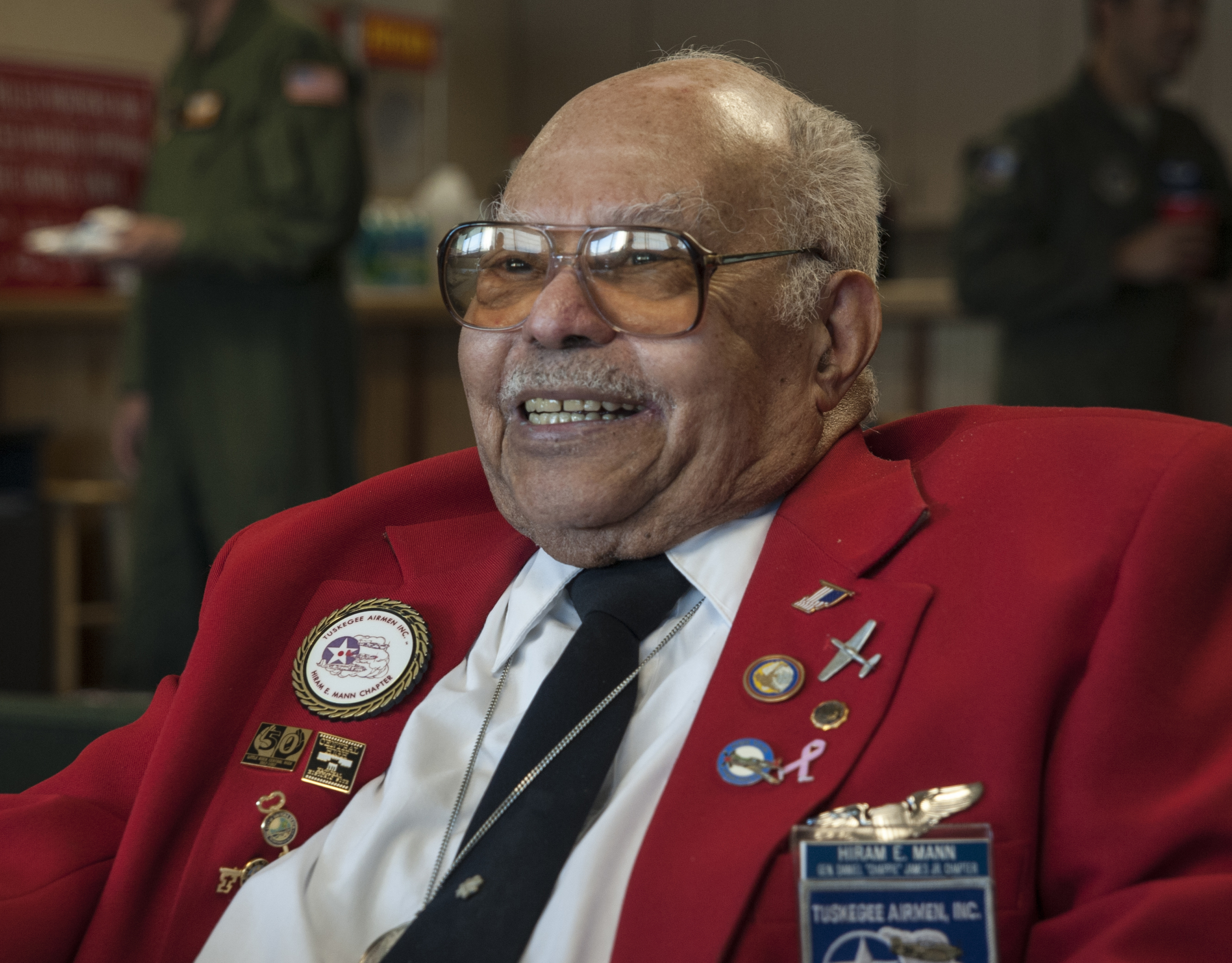 Tuskegee Airman Lt. Col. Hiram Mann visits the 16th Airlift Squadron Nov. 2, 2012 at Joint Base Charleston - Air Base, S.C. Entering the Army Air Corps as a pre-aviation student in 1942, Mann was assigned to the 100th Fighter Squadron of the 332nd Fighter Group, the Red Tail Angels, in Italy. He flew the P-40 "Warhawk" and the P-47 "Thunderbolt" fighter-type aircraft, and co-piloted in a B-25 "Billy Mitchell" bomber, a C-47 "Gooney-bird", and a C-45 "Expediter cargo planes. (U.S. Air Force photo/Airman 1st Class Ashlee Galloway)